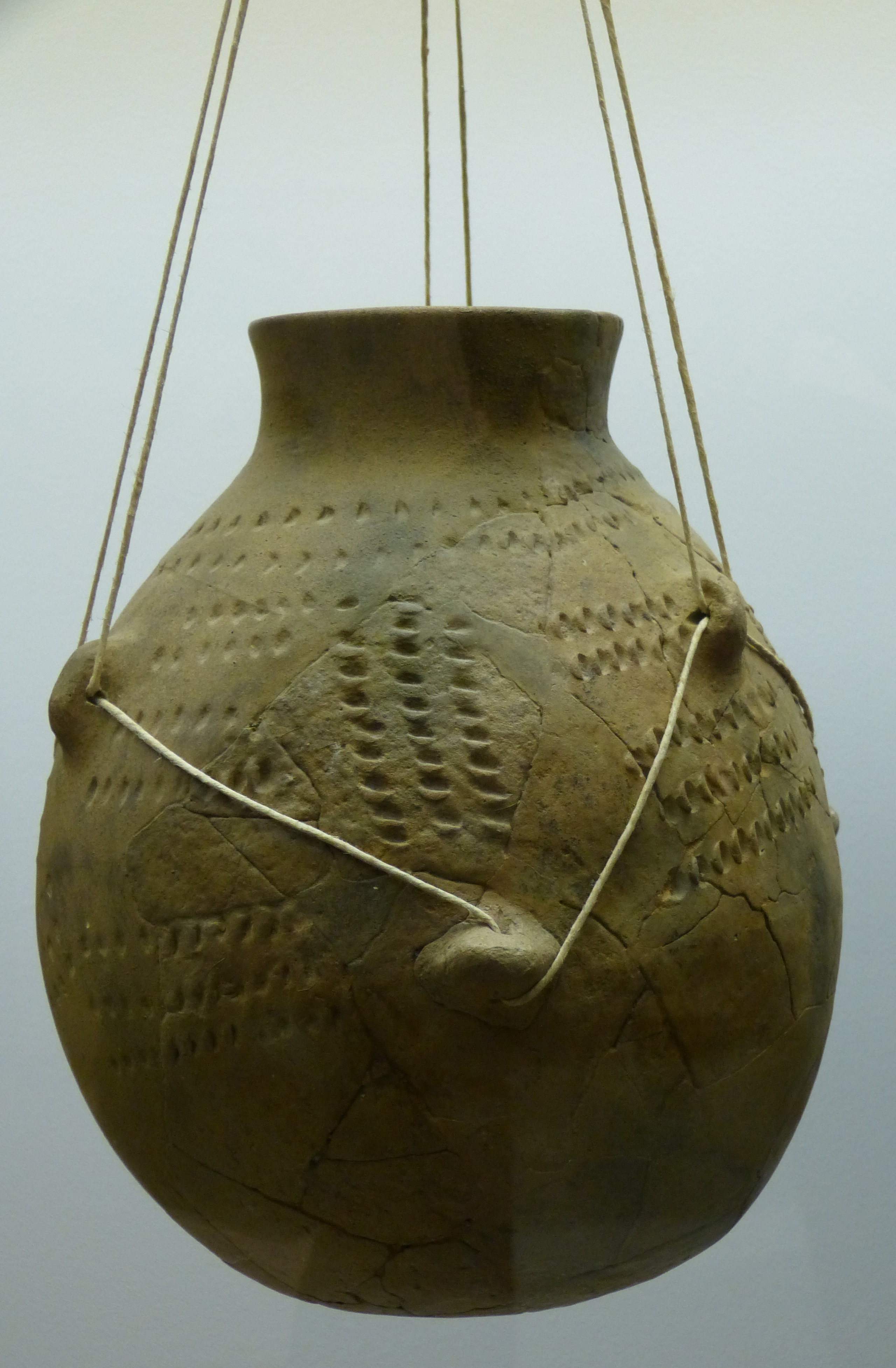 Straubing ( Lower Bavaria ). Gäubodenmuseum: Linear Pottery culture ceramics from Aiterhofen - Ödmühle.